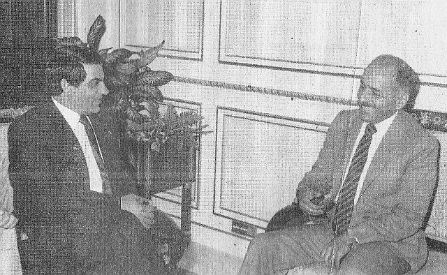 Tunisian president Zine el-Abidine Ben Ali (left) with Iraqi Deputy prime minister Taha Yasin Ramadan (right)